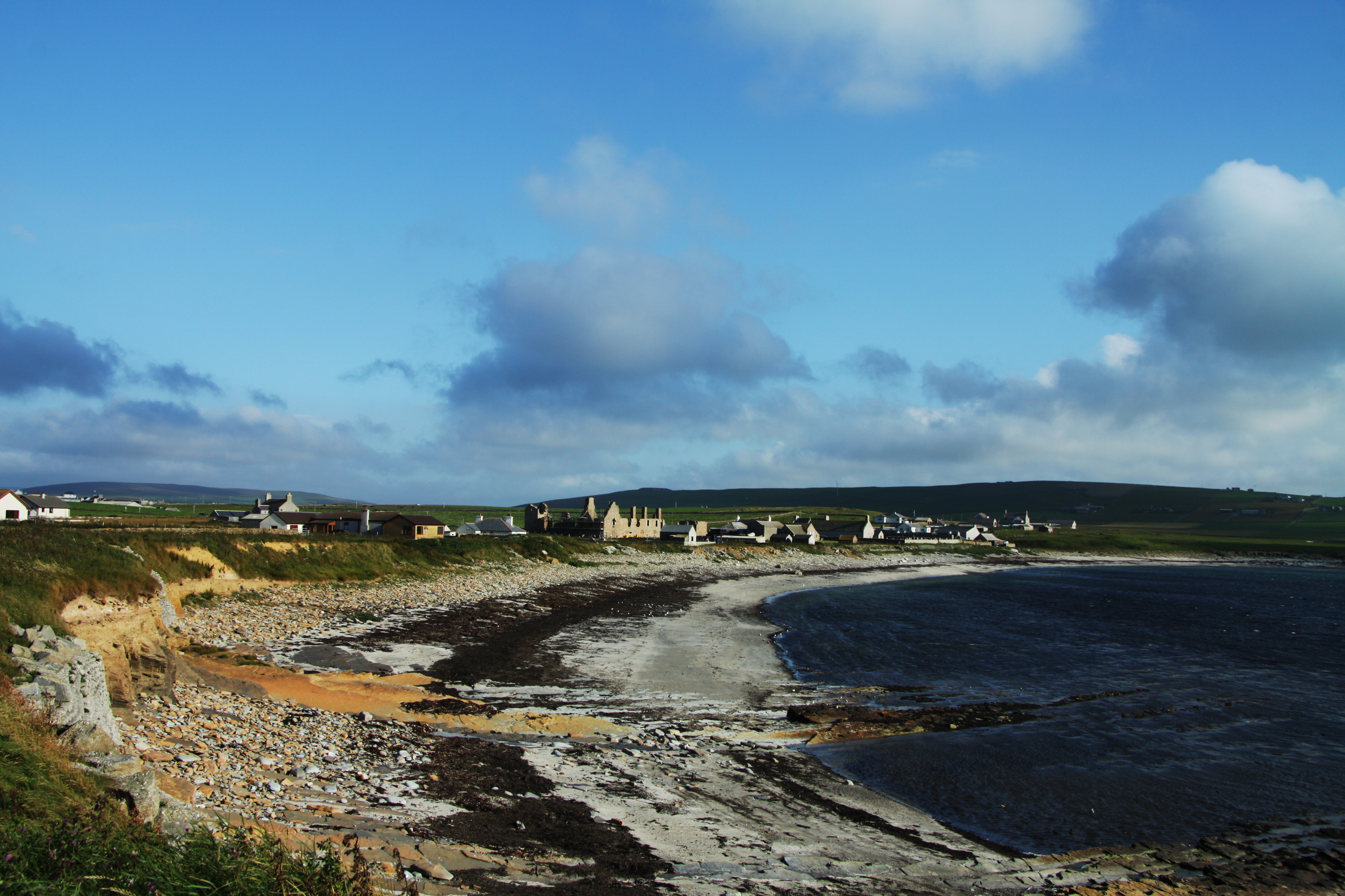 Birsay village, Orkney Island, Scotland